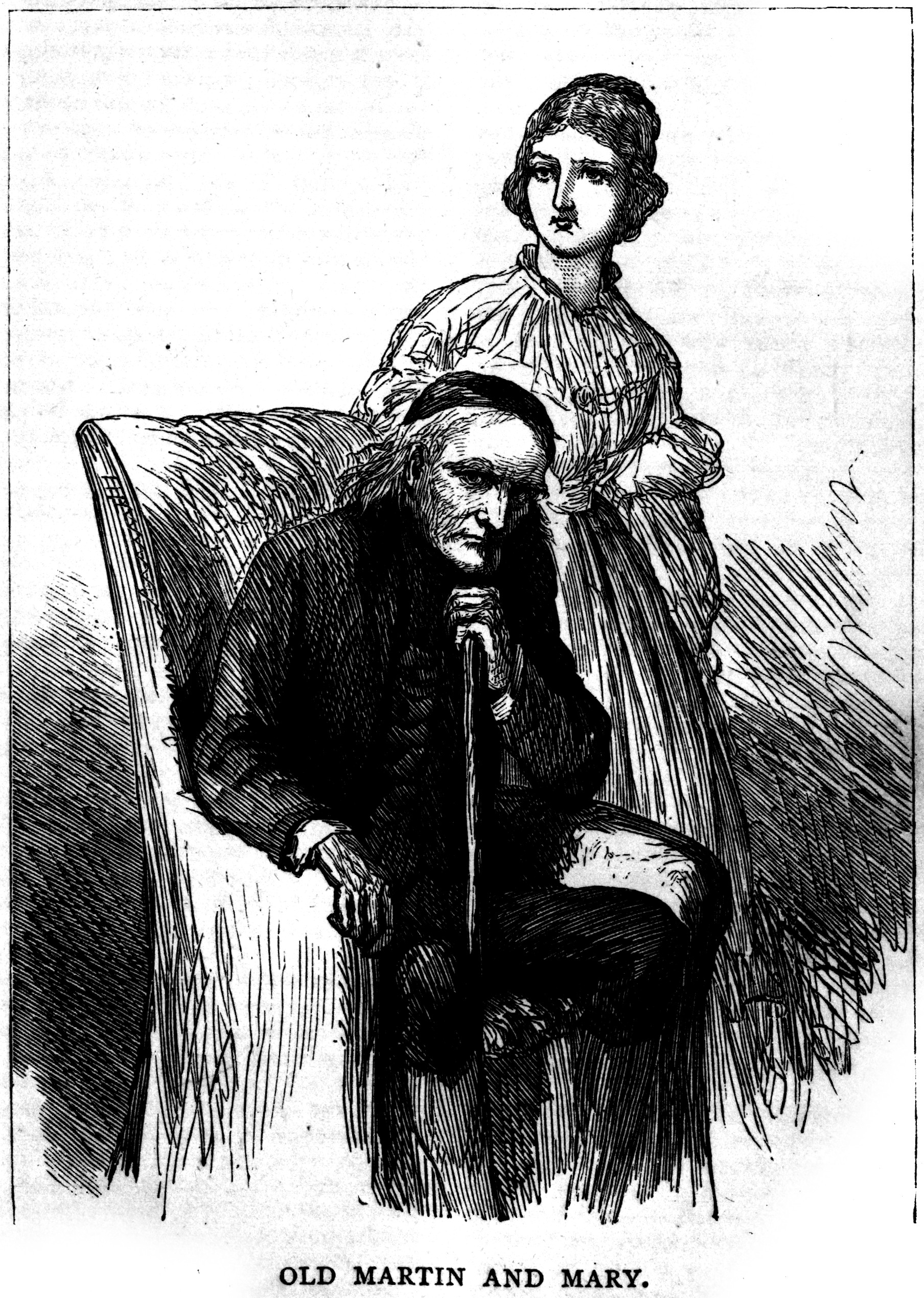 Illustration from 1867 U.S. edition of Martin Chuzzlewit. Page 382. "Old Martin and Mary"